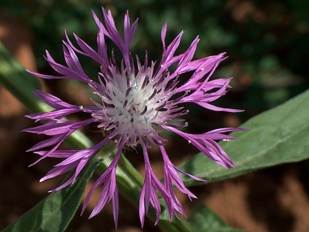 particular of flower of Centaurea napifolia L.